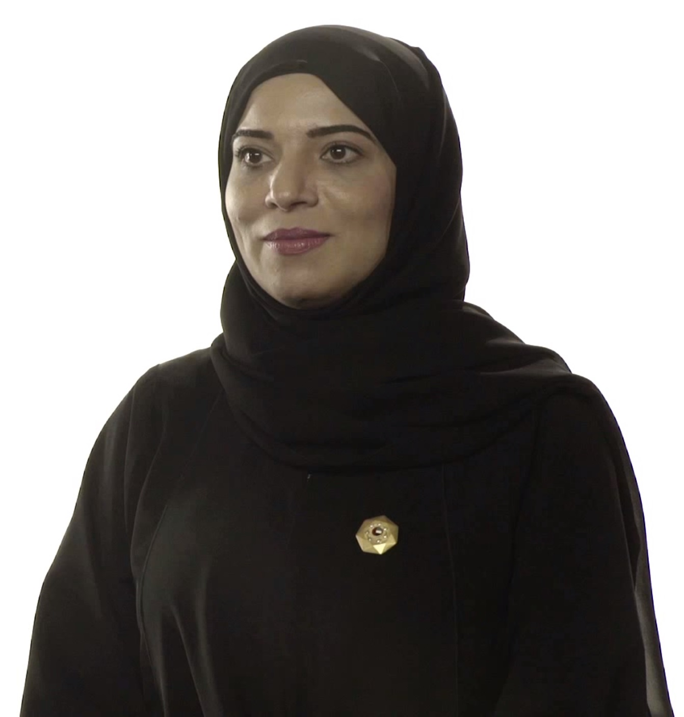 Early UAE 2014 The first to create a genetic map of the UAE families for the early detection of diabetes